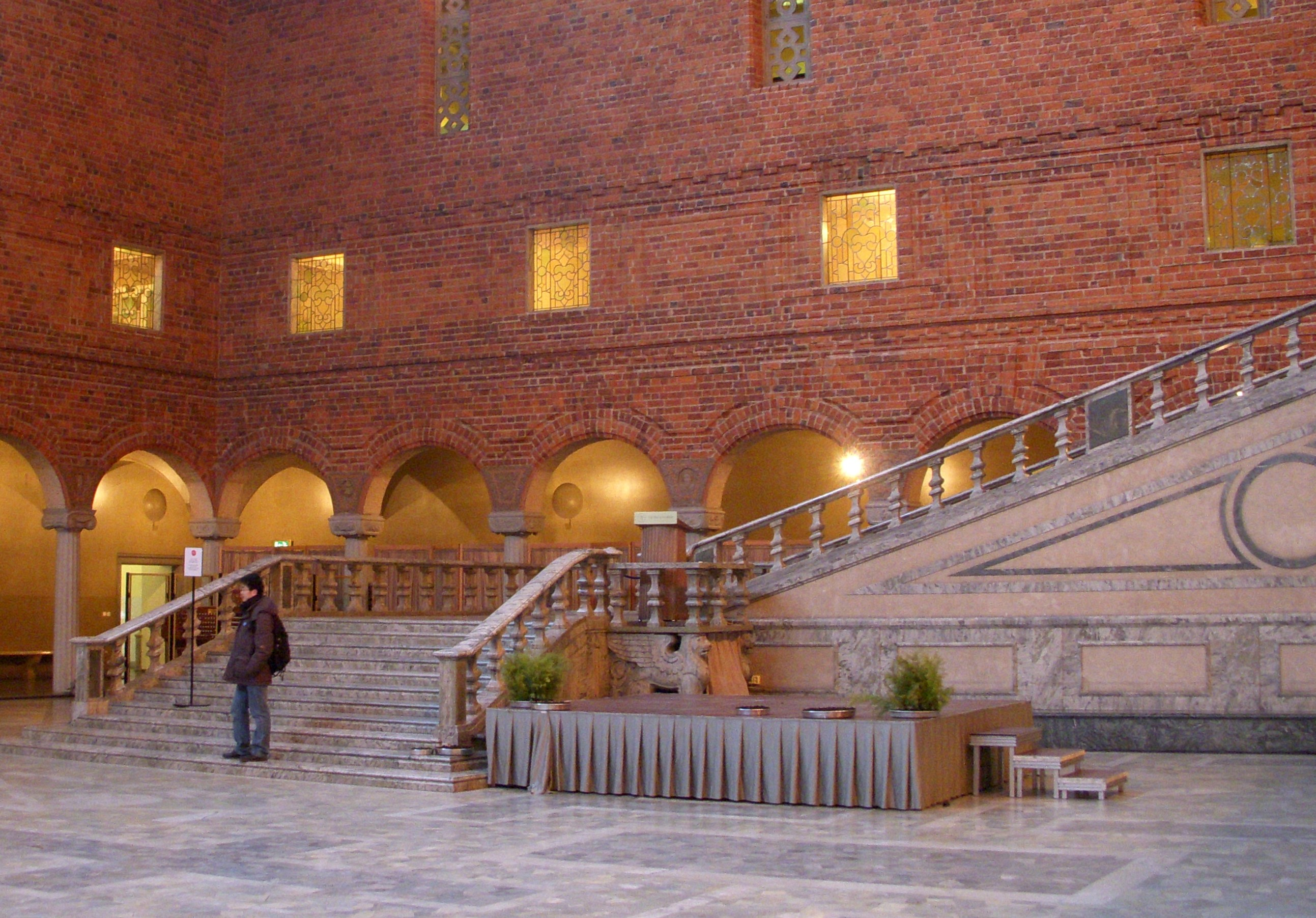 Stockholm City Hall main staircase in "Blå hallen"